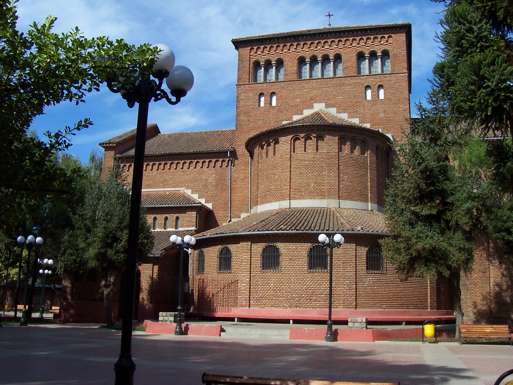 Linares Catedral (rear view with apse)